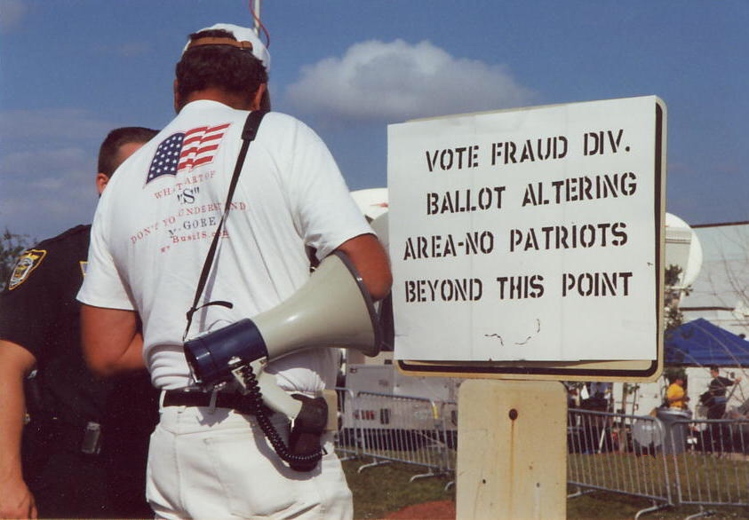 2000 presidential election recount in Palm Beach County: protestor puts sign over regular sign outside building, but cop makes him take it down